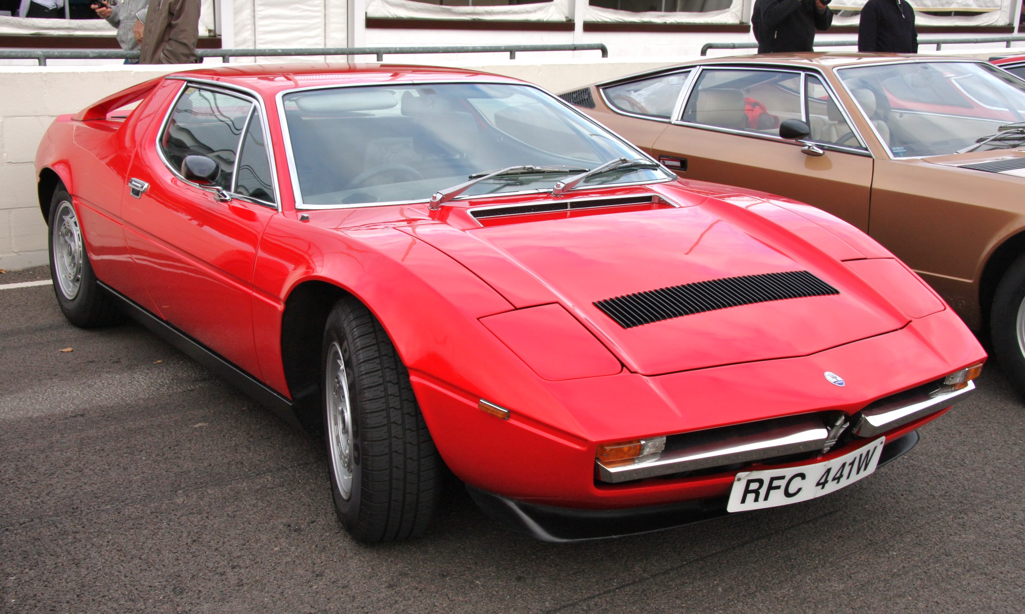 Goodwood Breakfast Club, October 2009 (Addition: Foto shows Maserati Merak, sharing some parts with the Bora; differences are in the sideline (missing rubber/chrome trimming line), the front and especially at the hood (C-pillars clear instead side windows)